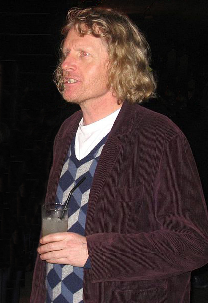 Alan Yentob and Grayson Perry at Private View of Gilbert & George Retrospective, Tate Modern